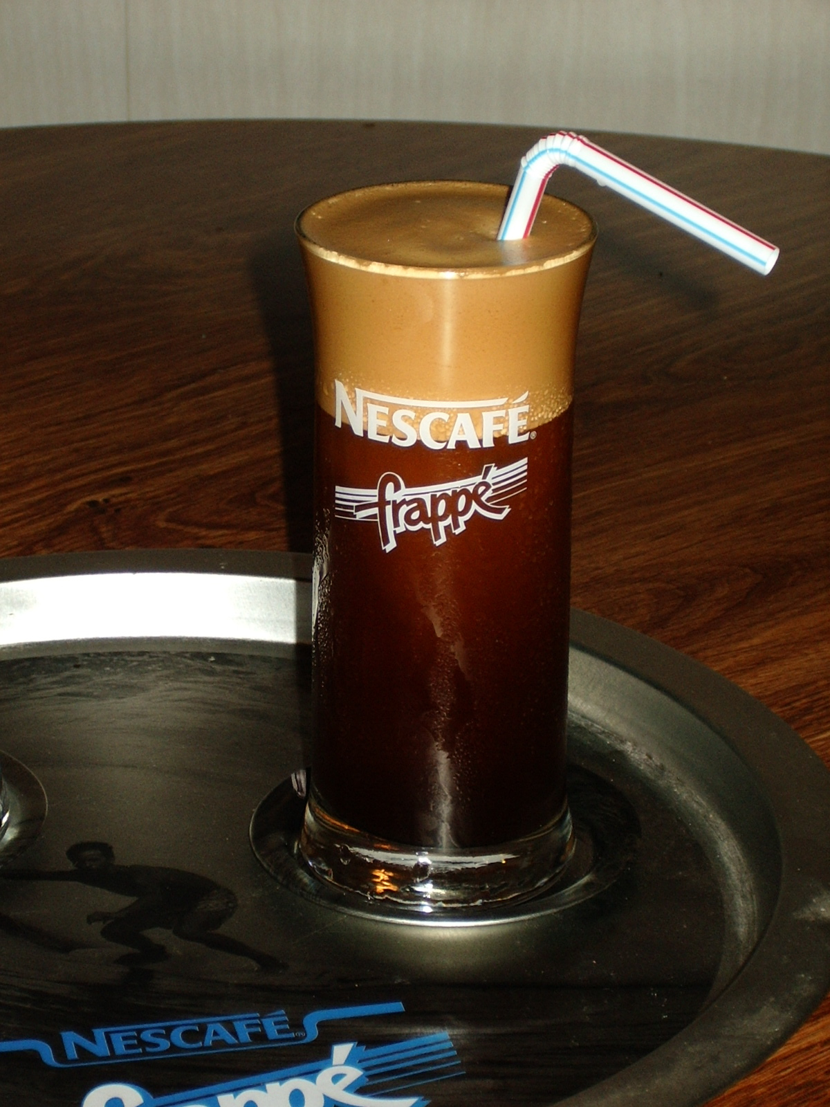 Frappé Coffee as produced by a hand mixer. The glass has been used by the manufacturer for promotion